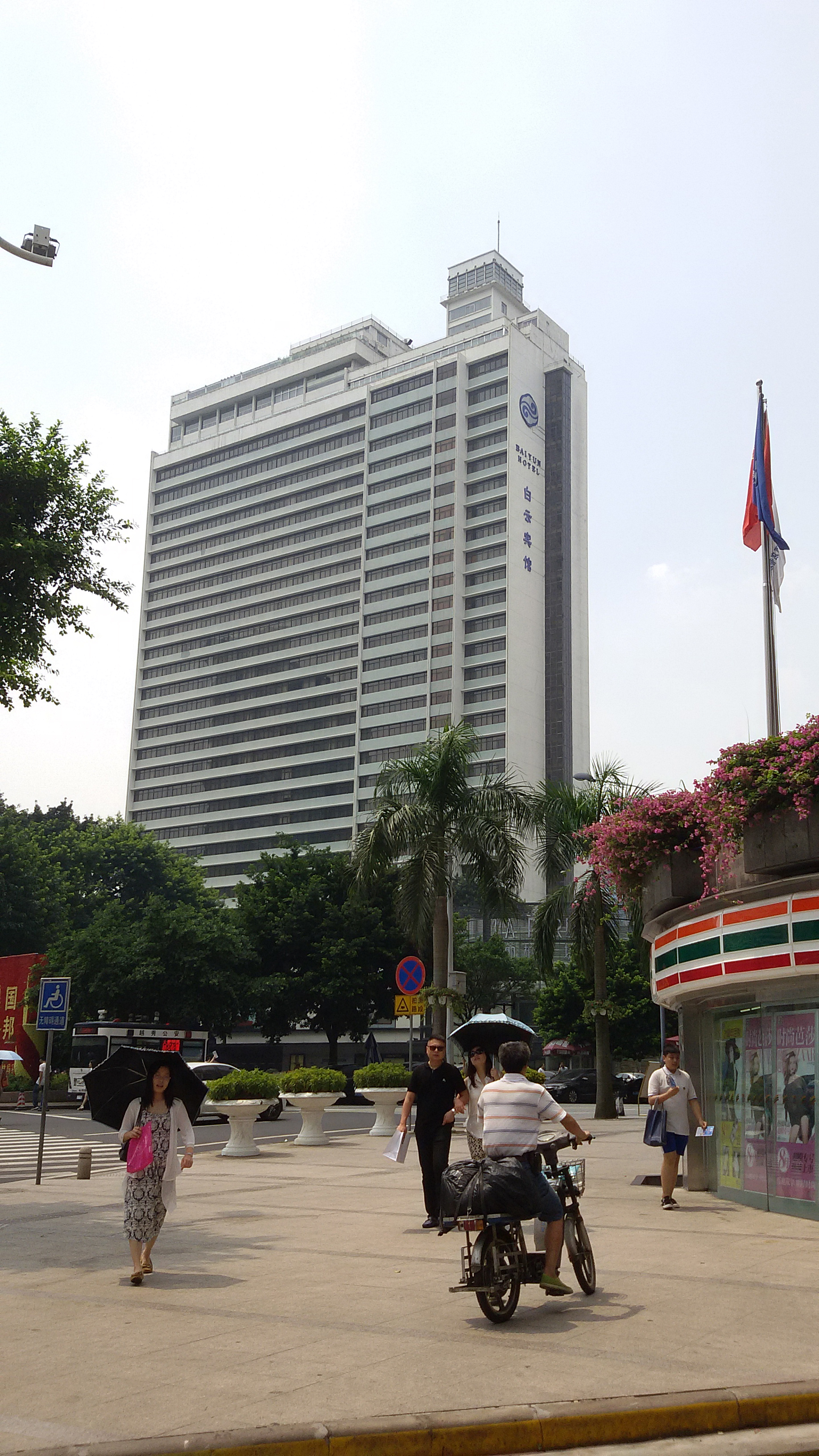 GUANGZHOU BAIYUN HOTEL 粵語: 廣州白雲賓館